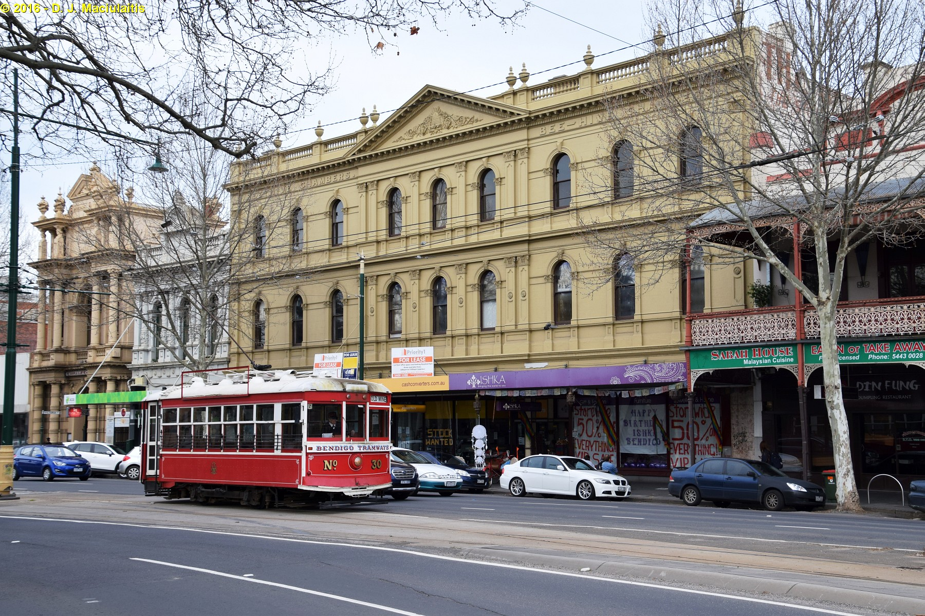 Tourist tram in Bendigo, Victoria, Australia